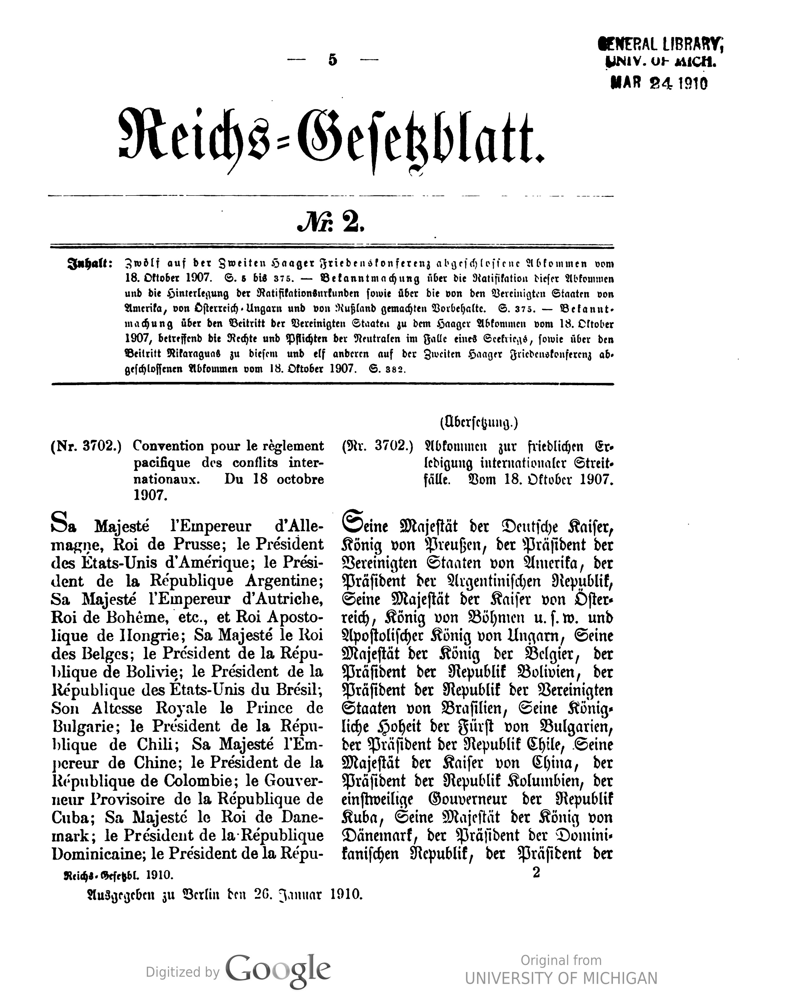 Scan from the Imperial Law Gazette of Germany, 1910